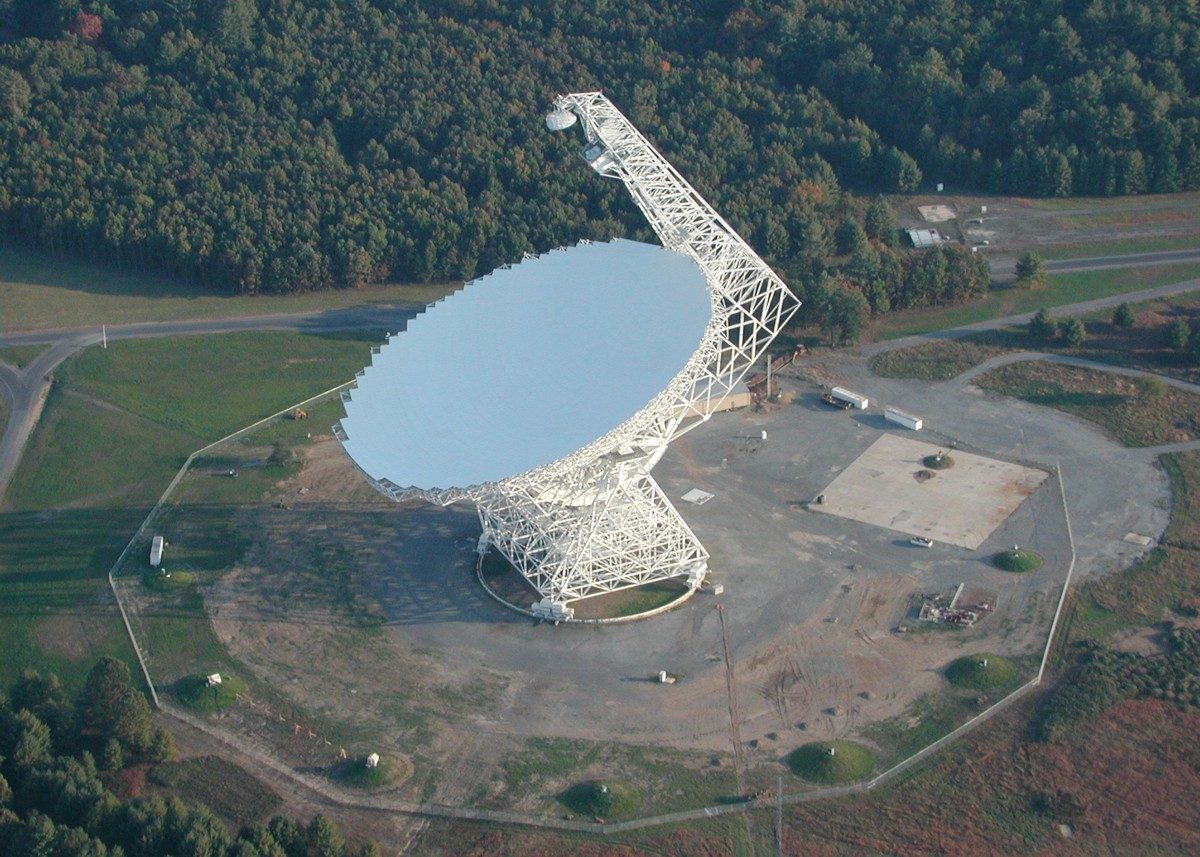 The Robert C. Byrd Green Bank Telescope is the world’s largest, fully-steerable telescope. Located at the Green Bank Observatory in Green Bank, West Virginia, United States.